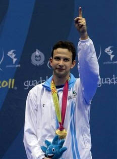 Gold medal at Guadalajara 2011